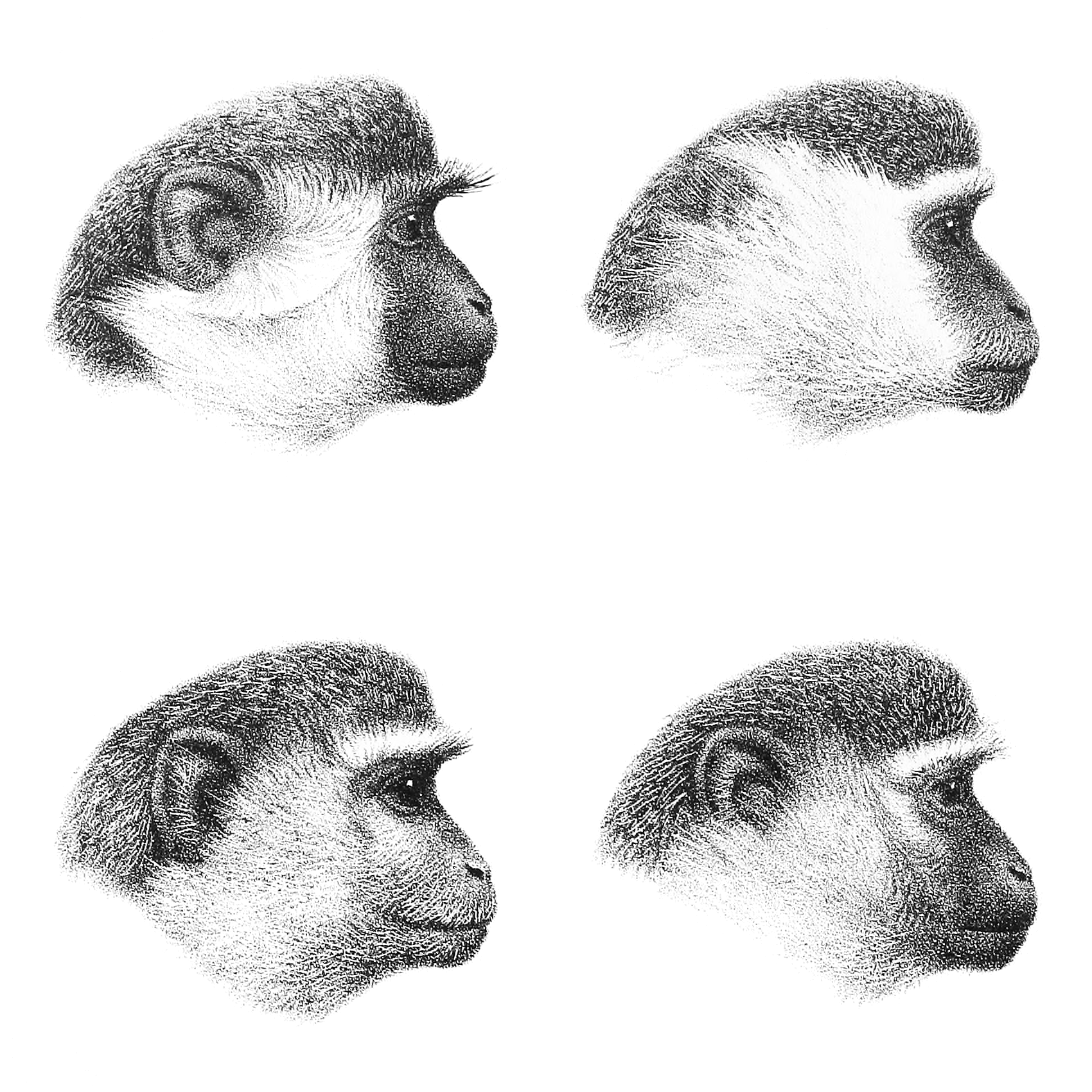 Heads of Chlorocebus monkeys from lateral. 1: Green Monkey, 2: Grivet, 3: Malbrouck, 4: Vervet